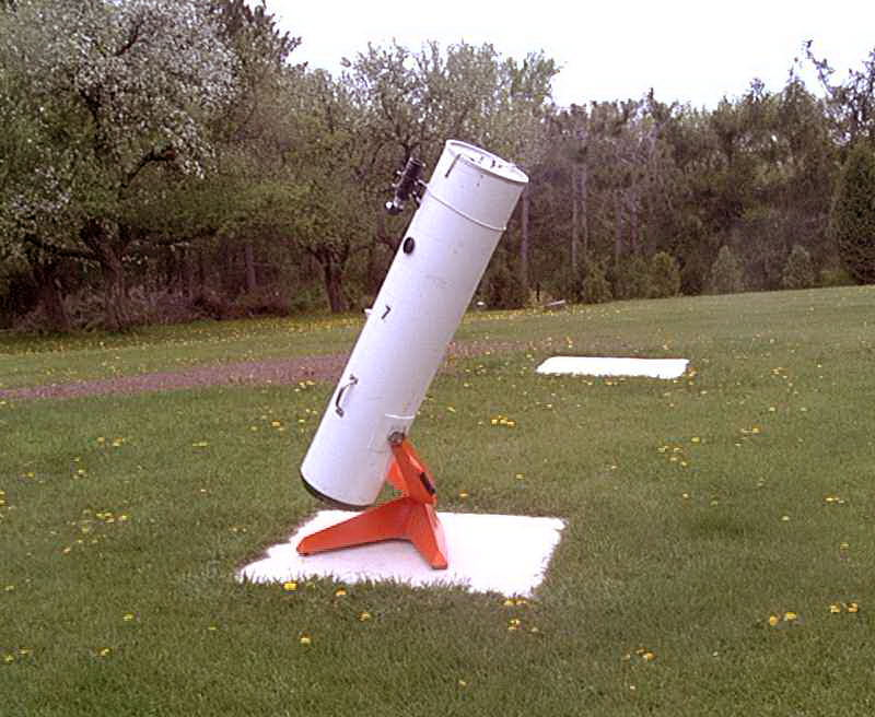 One of 12 10-inch f/5.6 reflecting telescopes called a Portascope built by the Milwaukee Astronomical Society.